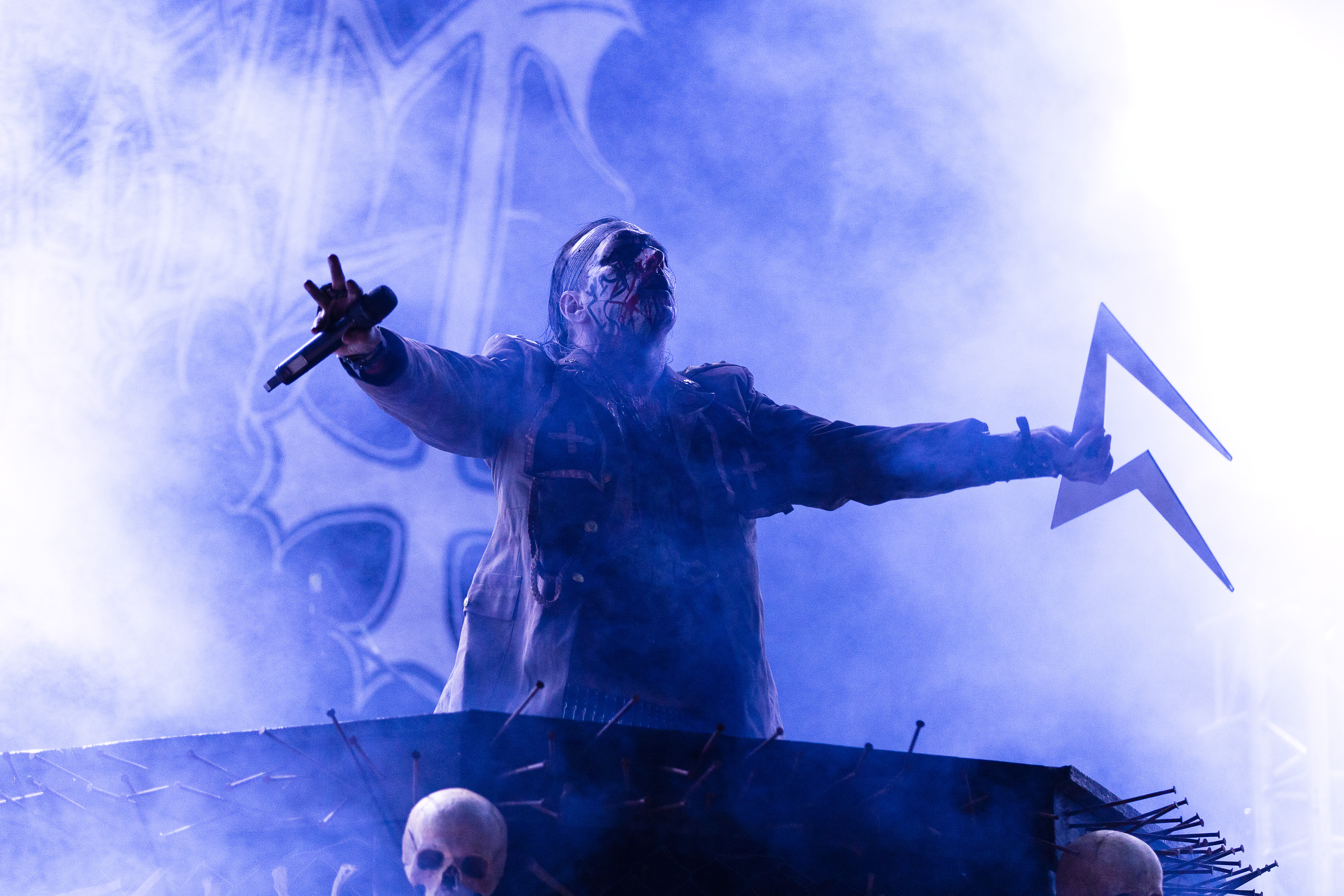 The Norwegian extreme metal band Mayhem at the Party.San Open Air 2015 in Obermehler-Schlotheim/Germany.